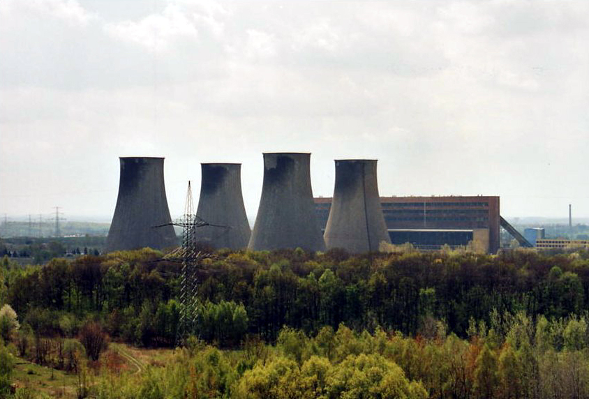 This image shows the Thierbach Power Station near Kitzscher. The power station (840 MW) was used from 1969 to 1999. Its 300 m chimney was demolished in October 2002, the four cooling towers were demolished in March 2006.